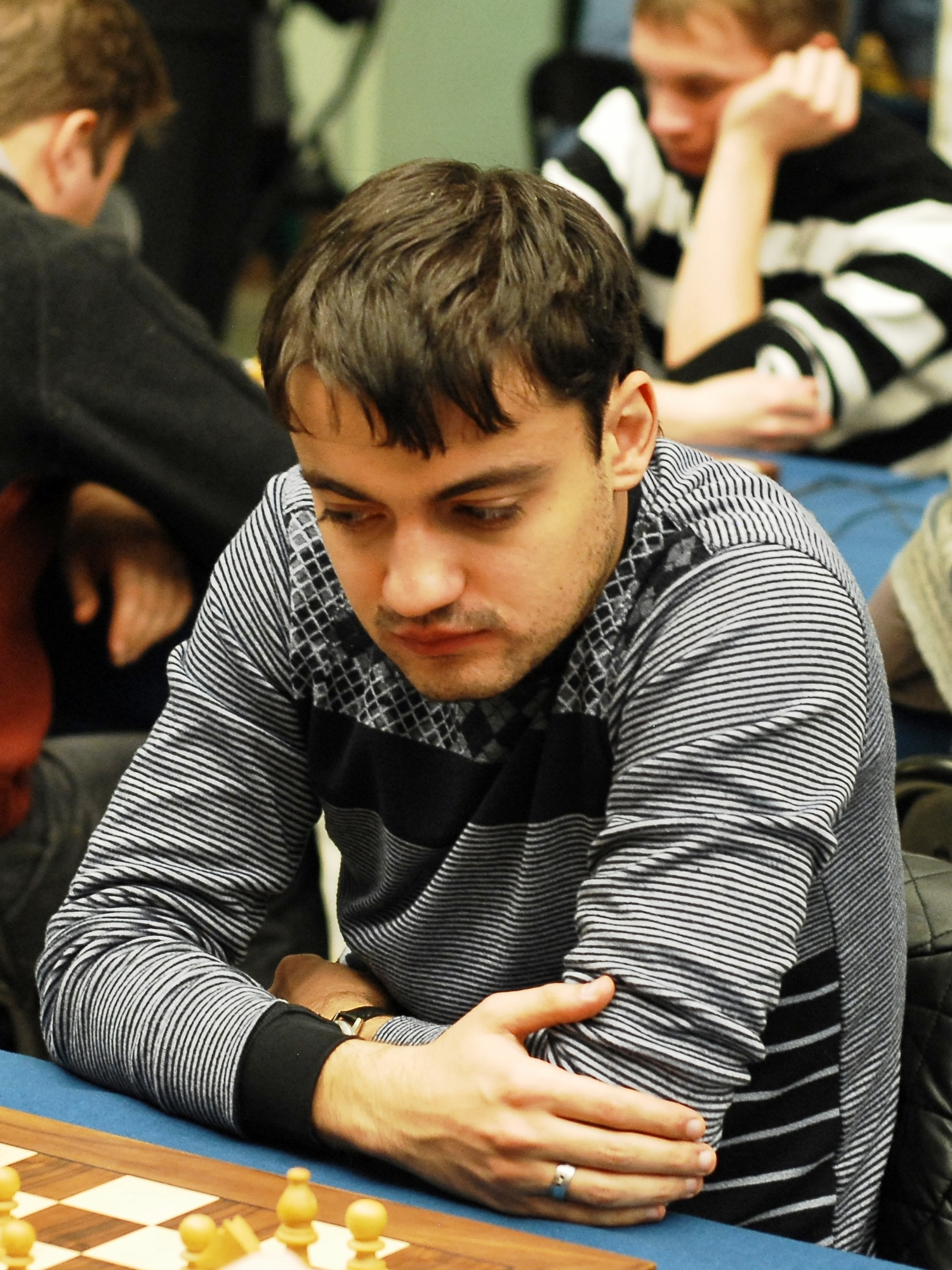 GM Zaven Andriasian, European Rapid Chess Championship, Warsaw 2012.